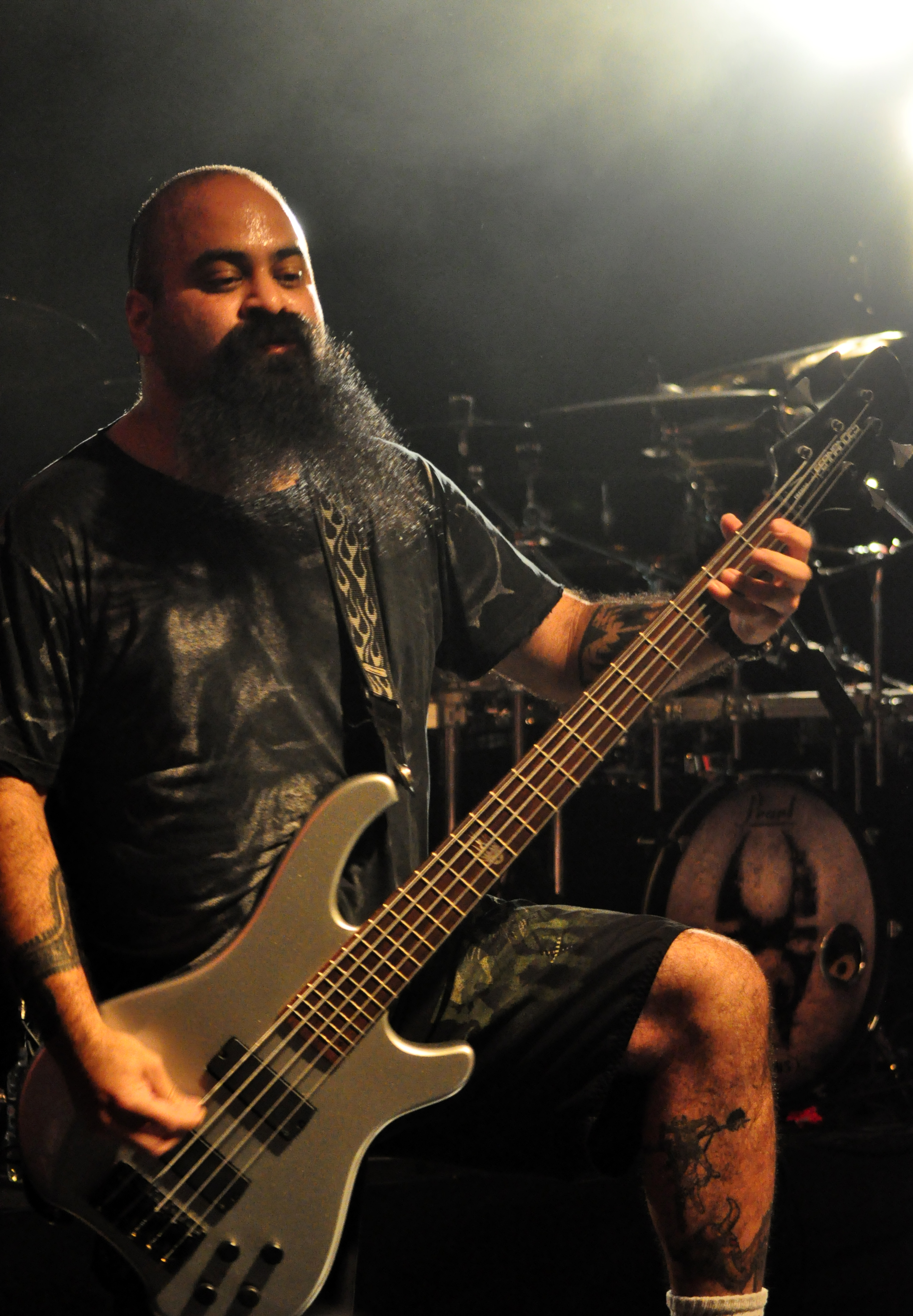 Soulfly in Rostock 2012